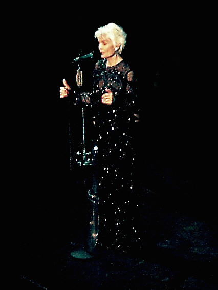 Israeli singer and actress Daliah Lavi performing on stage during a concert at Gewandhaus in Leipzig/Germany on March 8th, 2009.